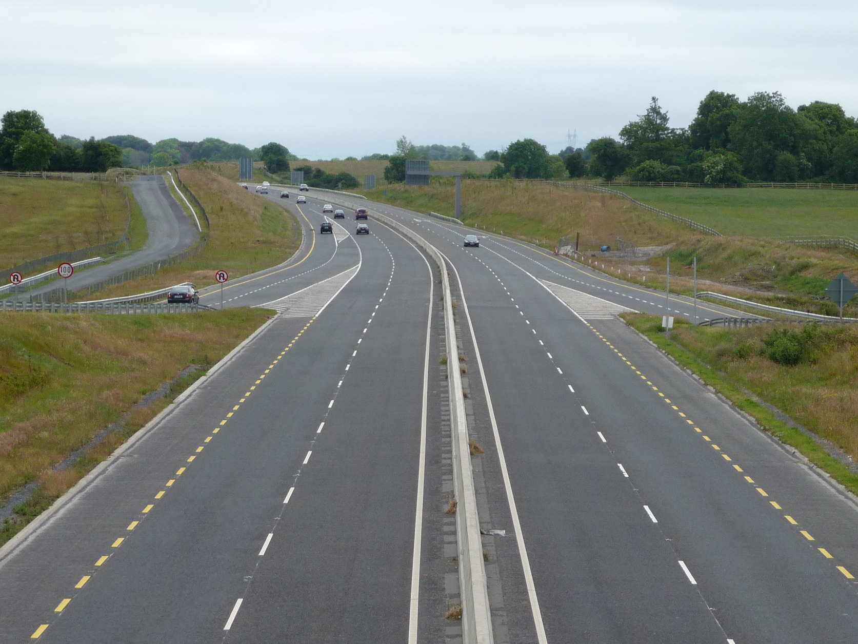 Looking South from the Ennis junction flyover. This section of High Quality Dual Carriageway has been included in the second tranche of motorway redesignations.